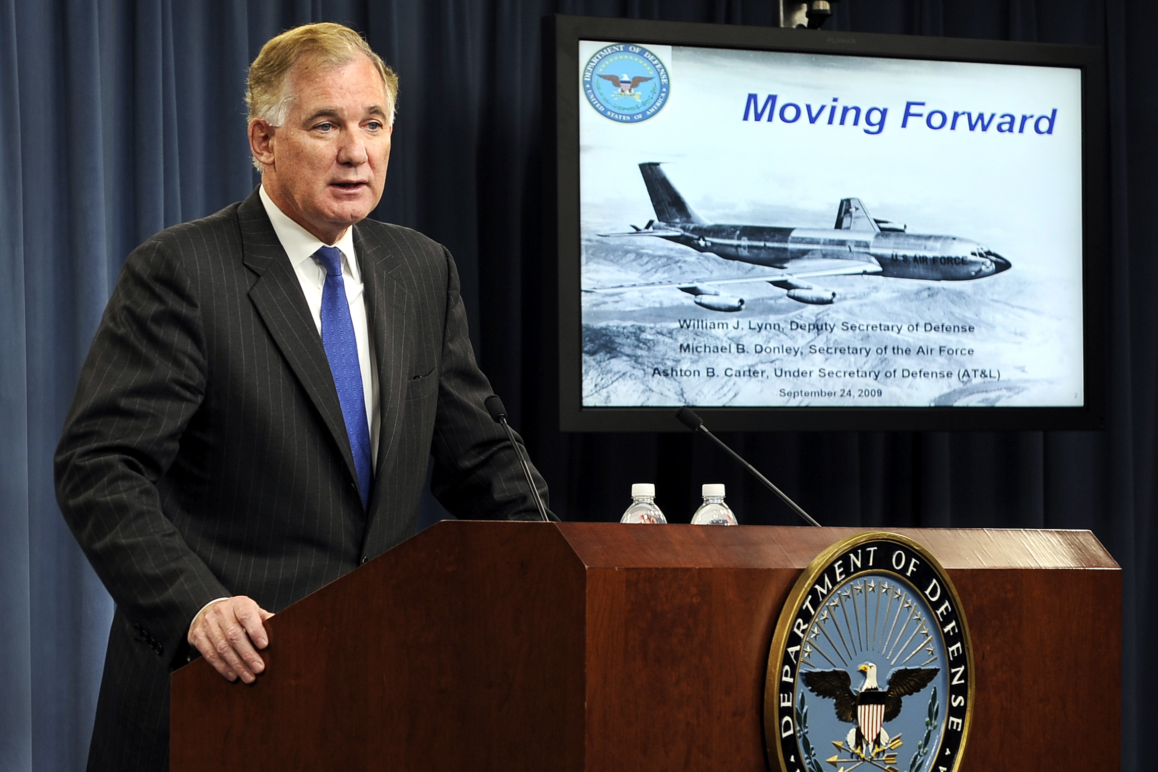 Deputy Secretary of Defense William Lynn, speaks with members of the press about the Air Force KC-X aerial tanker program during a press conference with Secretary of the Air Force Michael Donley and Under Secretary of Defense for Acquisition Technology and Logistics Ashton Carter at the Pentagon, Sept. 24, 2009.